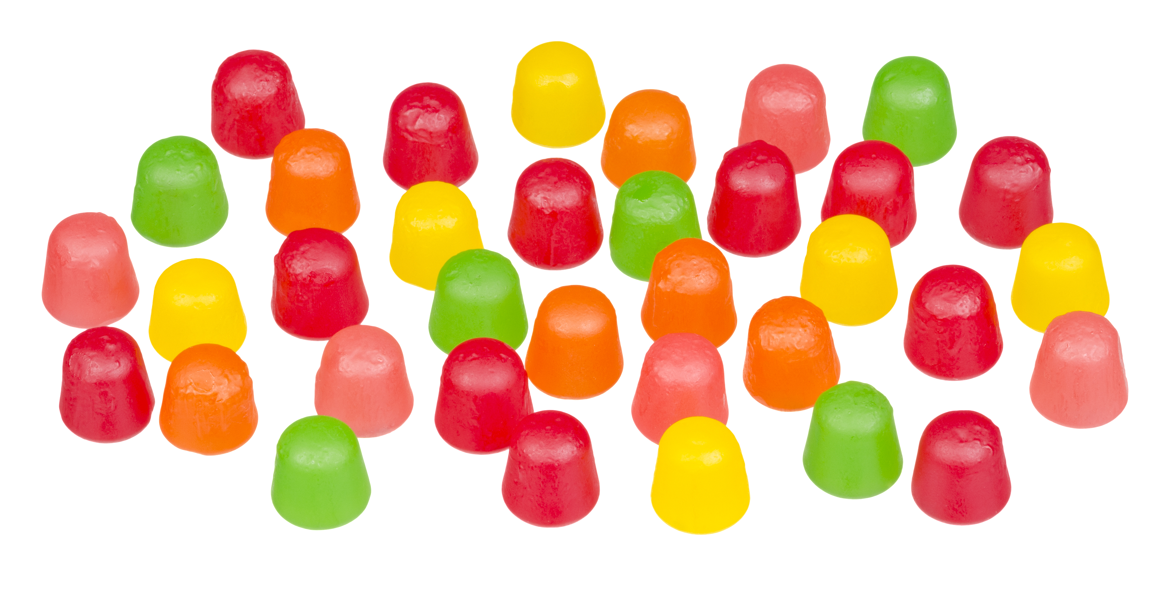 A pile of Dots, an American fruit-flavored (cherry, lemon, lime, orange, strawberry) gum drop candy produced by Tootsie Roll.